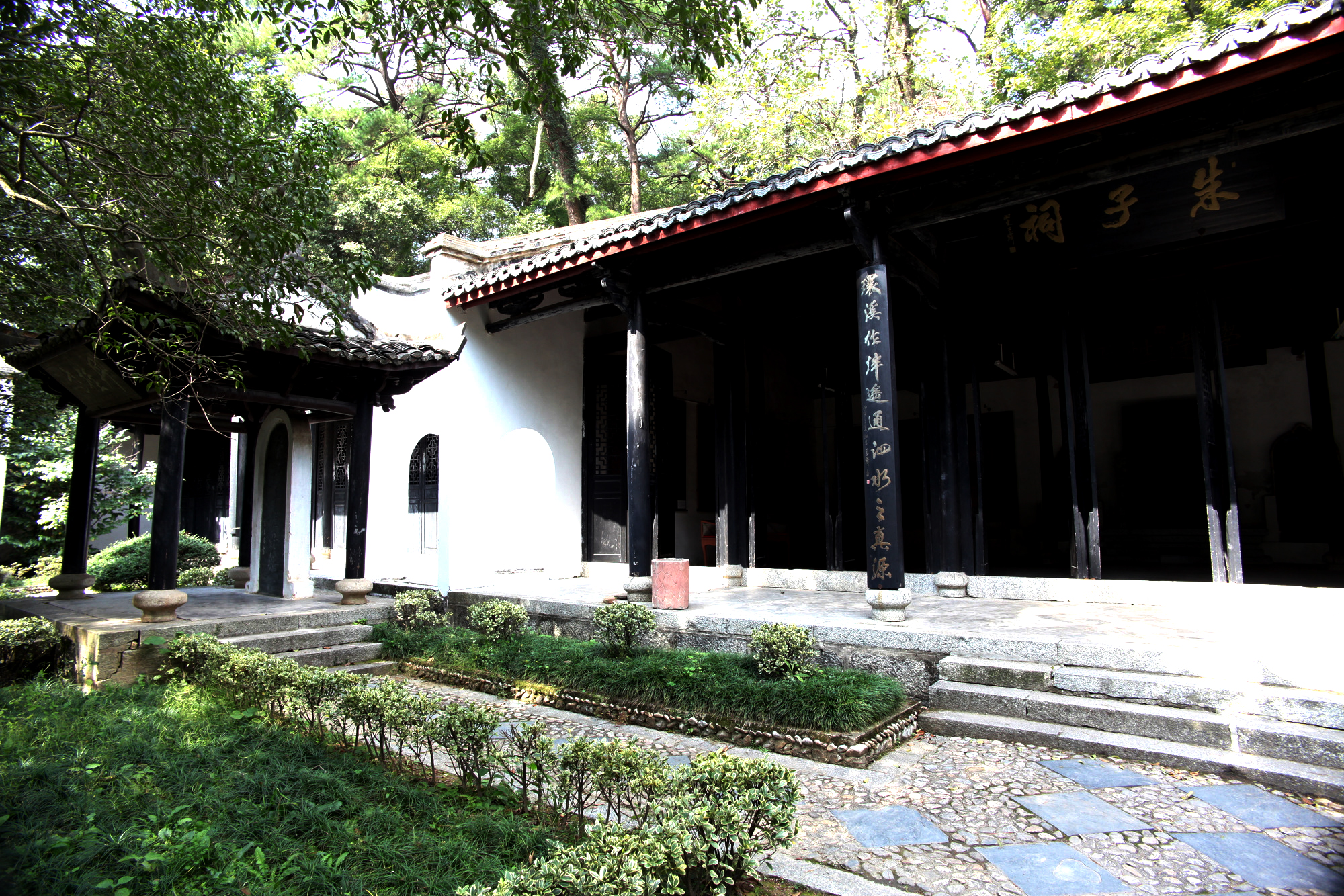 朱子祠